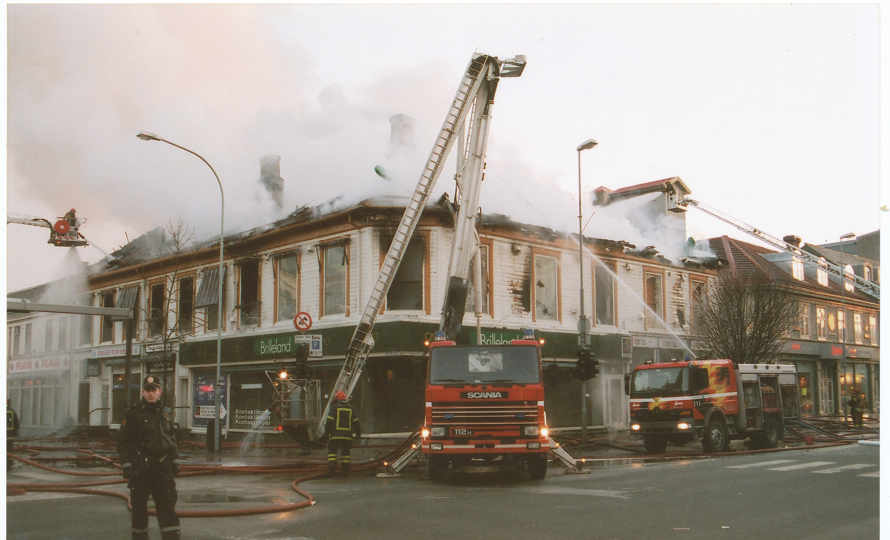 Format: Fotopositiv Dato / Date: 21 February 2003 Fotograf / Photographer: Haldis Isachsen Sted / Place: Olav Tryggvasons gate 12, Trondheim Eier / Owner Institution: Trondheim byarkiv, The Municipal Archives of Trondheim Arkivreferanse / Archive reference: Tor.H40.B18.F1319 [T0851] Merknad: Olav Tryggvasons gate 12, ved hjørnet til Søndre gate. Gården ble bygd i 1841 og brant ned den 21. februar 2003.